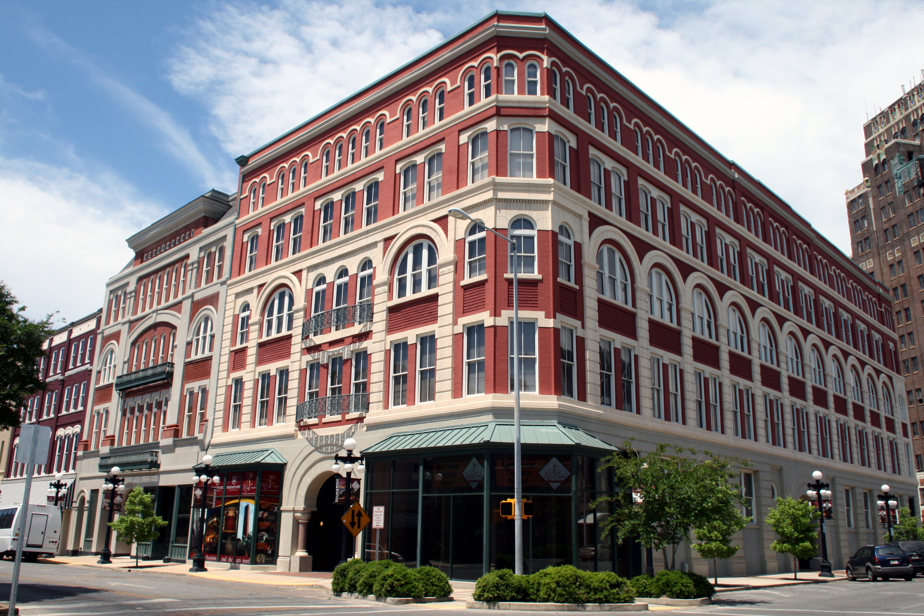 Teh restored Grand Operal House in Meridan Mississippi.